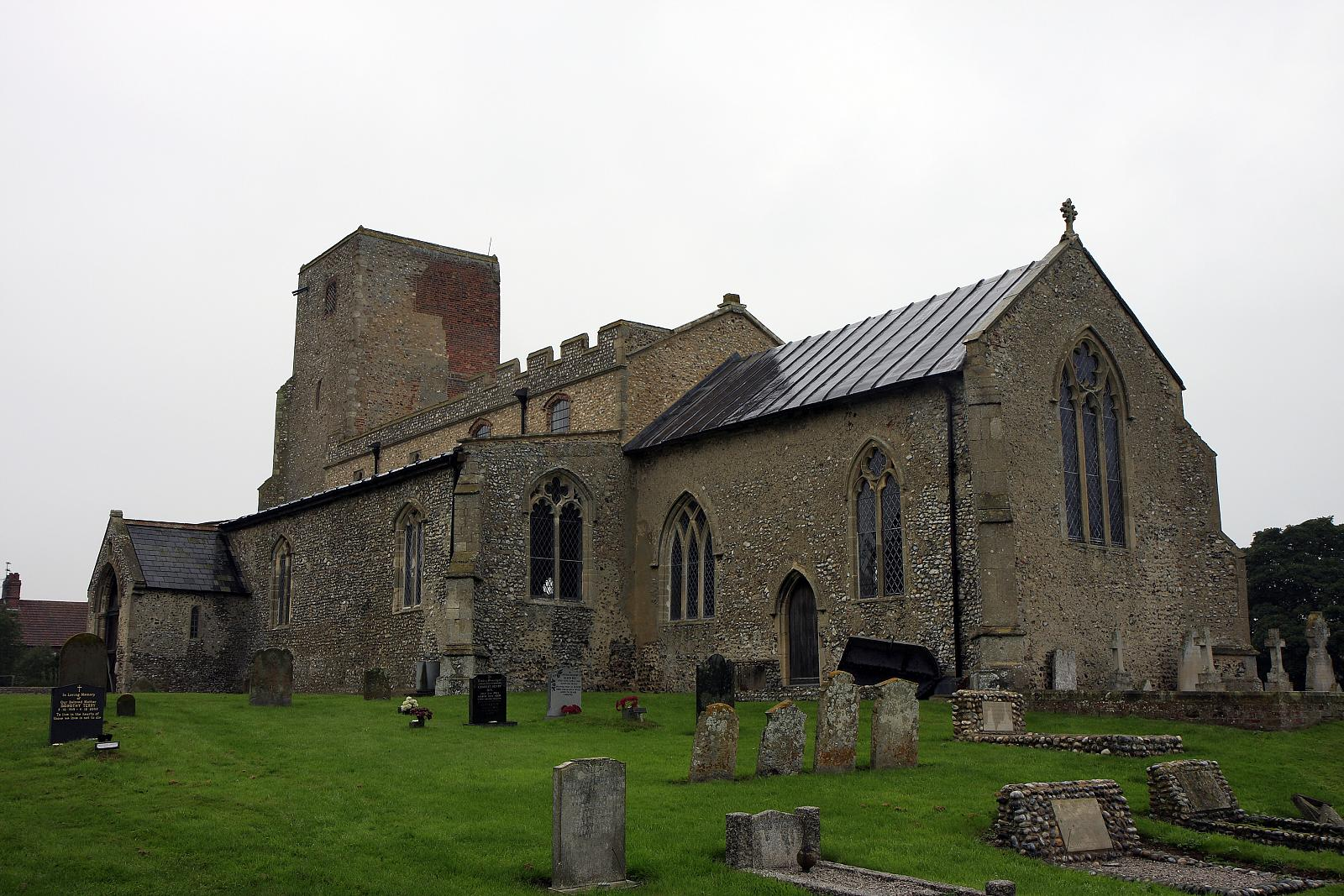 13th century tower but partly rebuilt in red brick when the tower was struck by lightning in 1743.